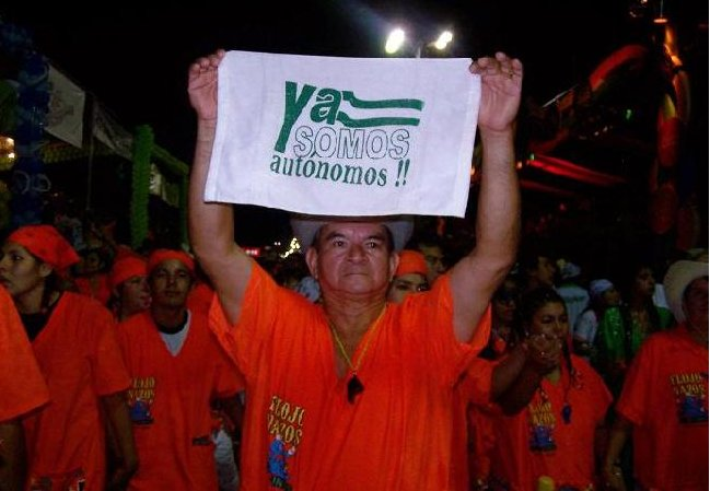 March in favor of autonomy. Santa Cruz de la Sierra. Bolivia